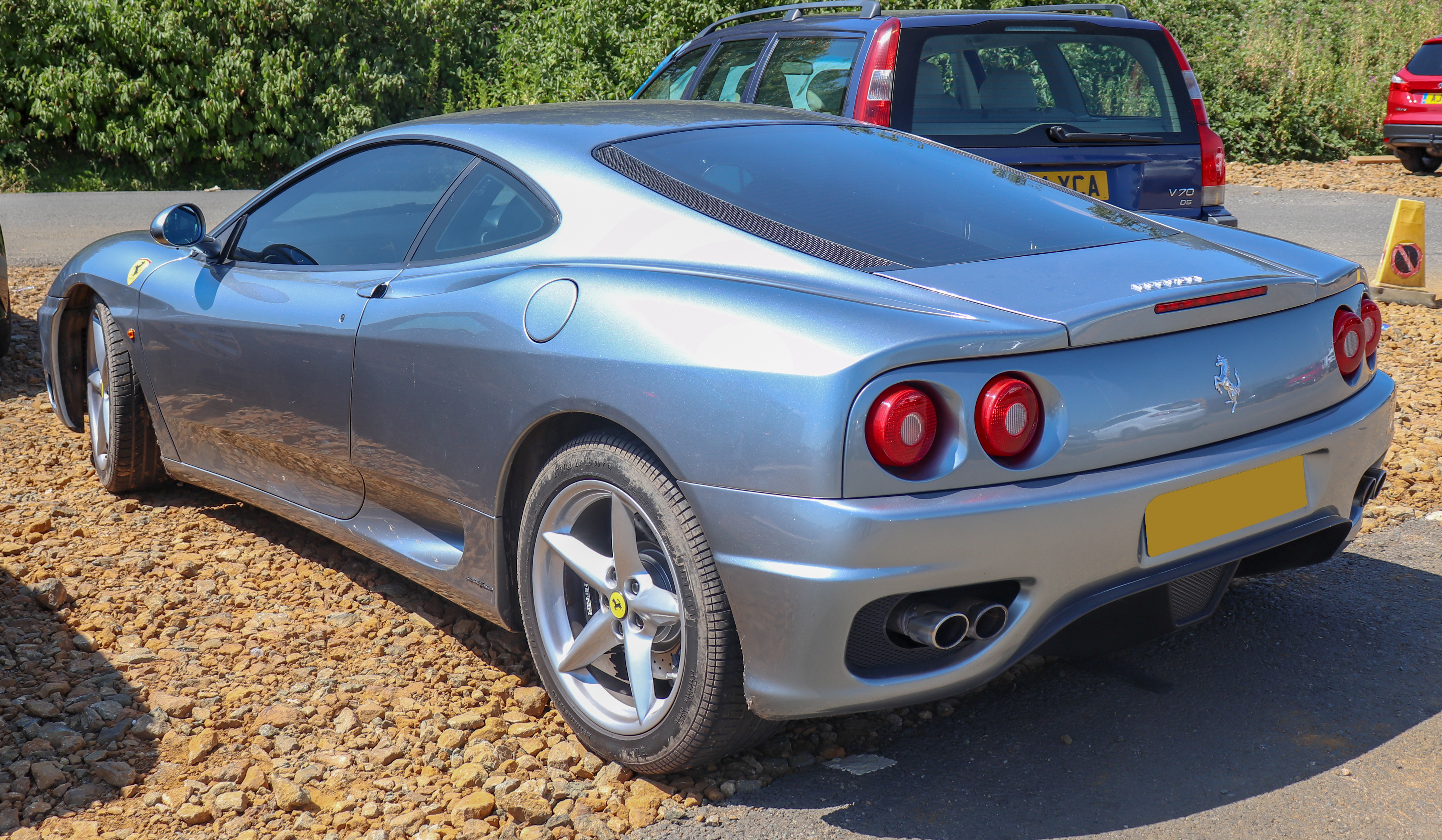 2003 Ferrari 360 Modena 3.6 Rear Taken at the British Motor Museum Old Ford Rally 2018, Gaydon